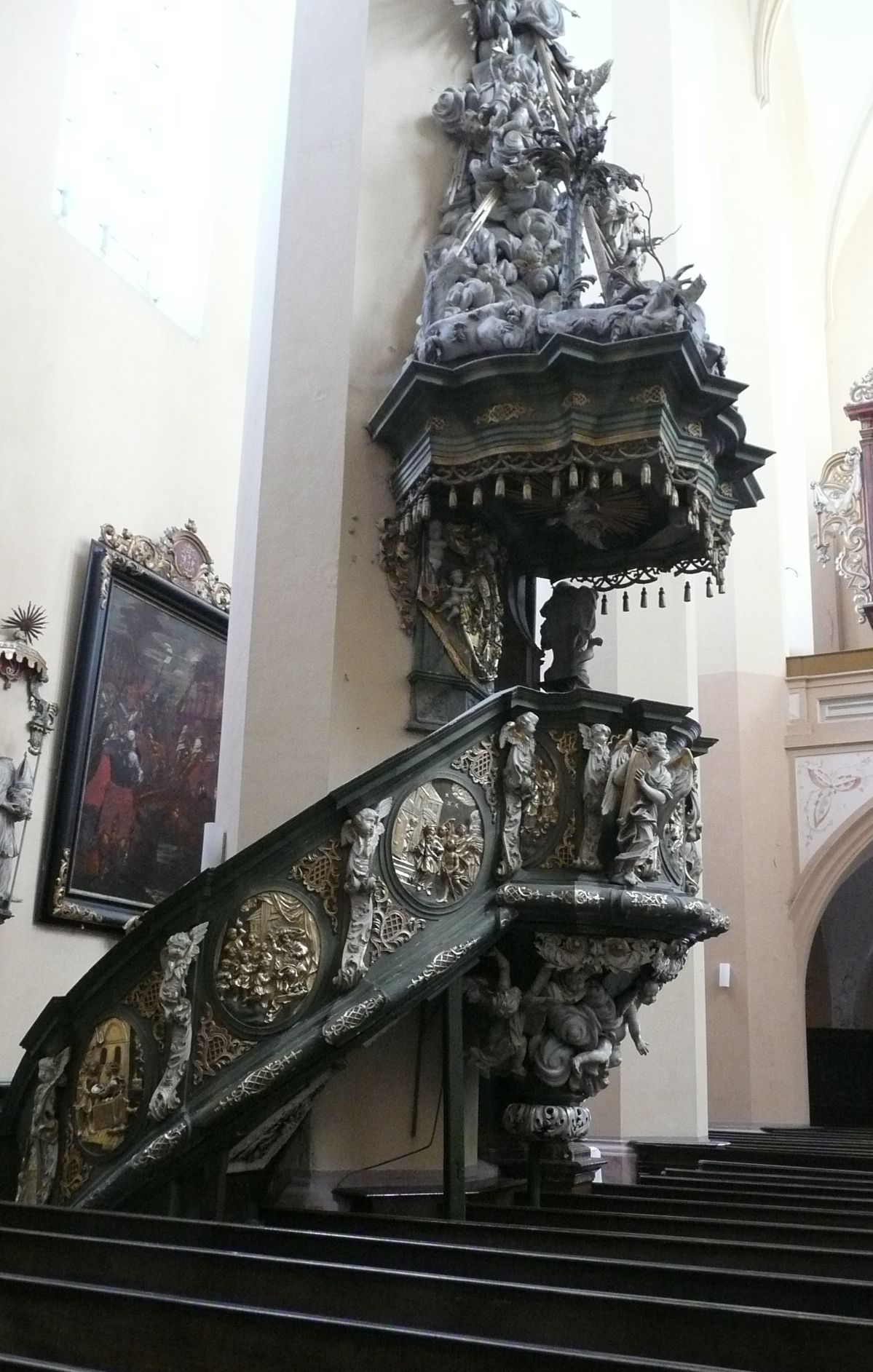 Pulpit of Kamieniec Zabkowicki church